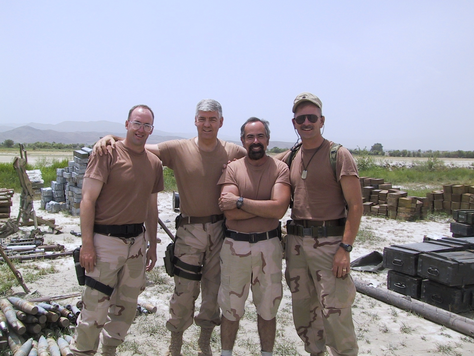 Randy Watt, C.O. of the Chapman special forces base in Afghanistan poses for a photograph with U.S. Army soldiers in July 2002.